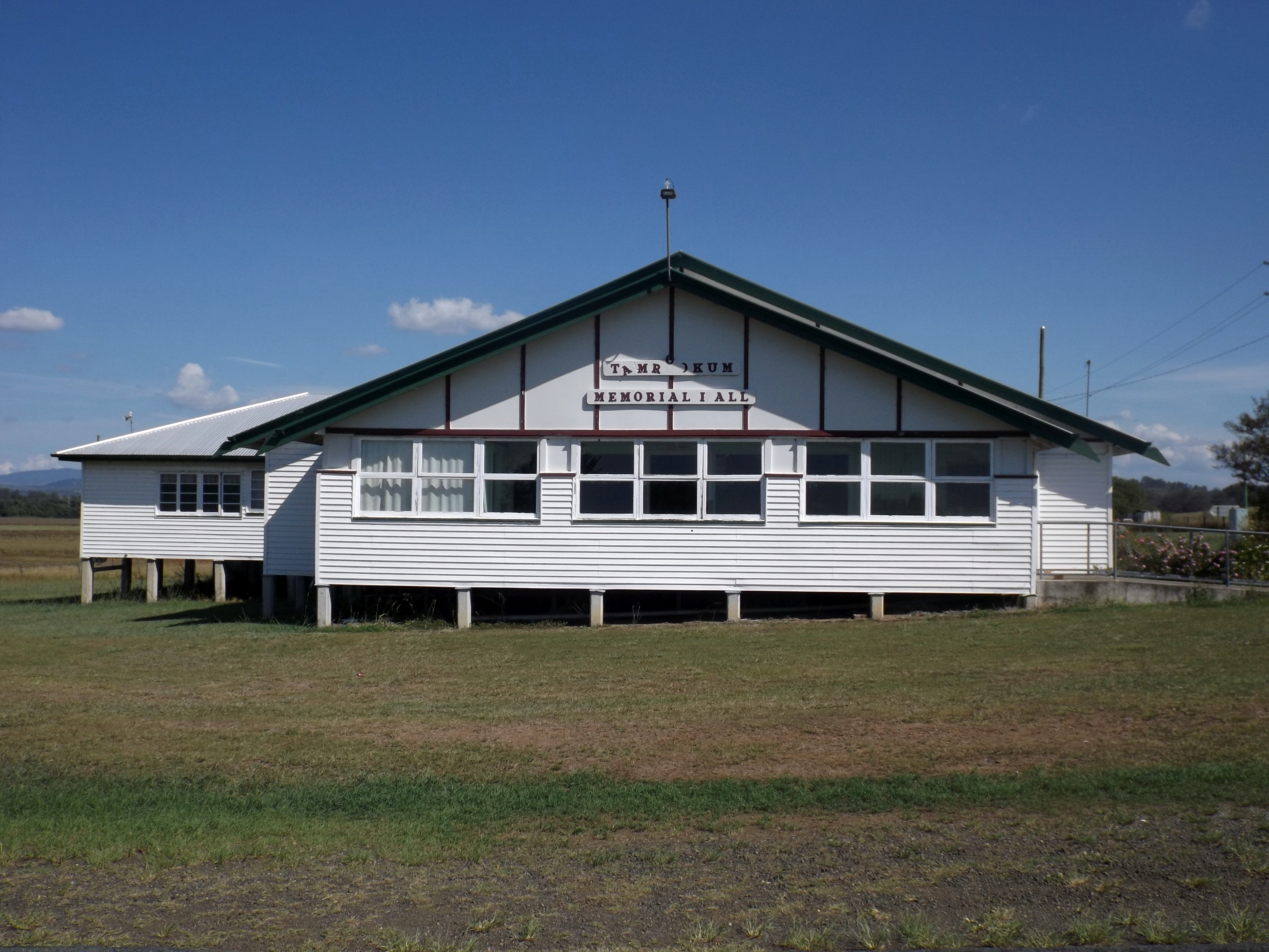 Photo of Tamrookum Memorial Hall at Tamrookum, Scenic Rim Region, Queensland, Australia.